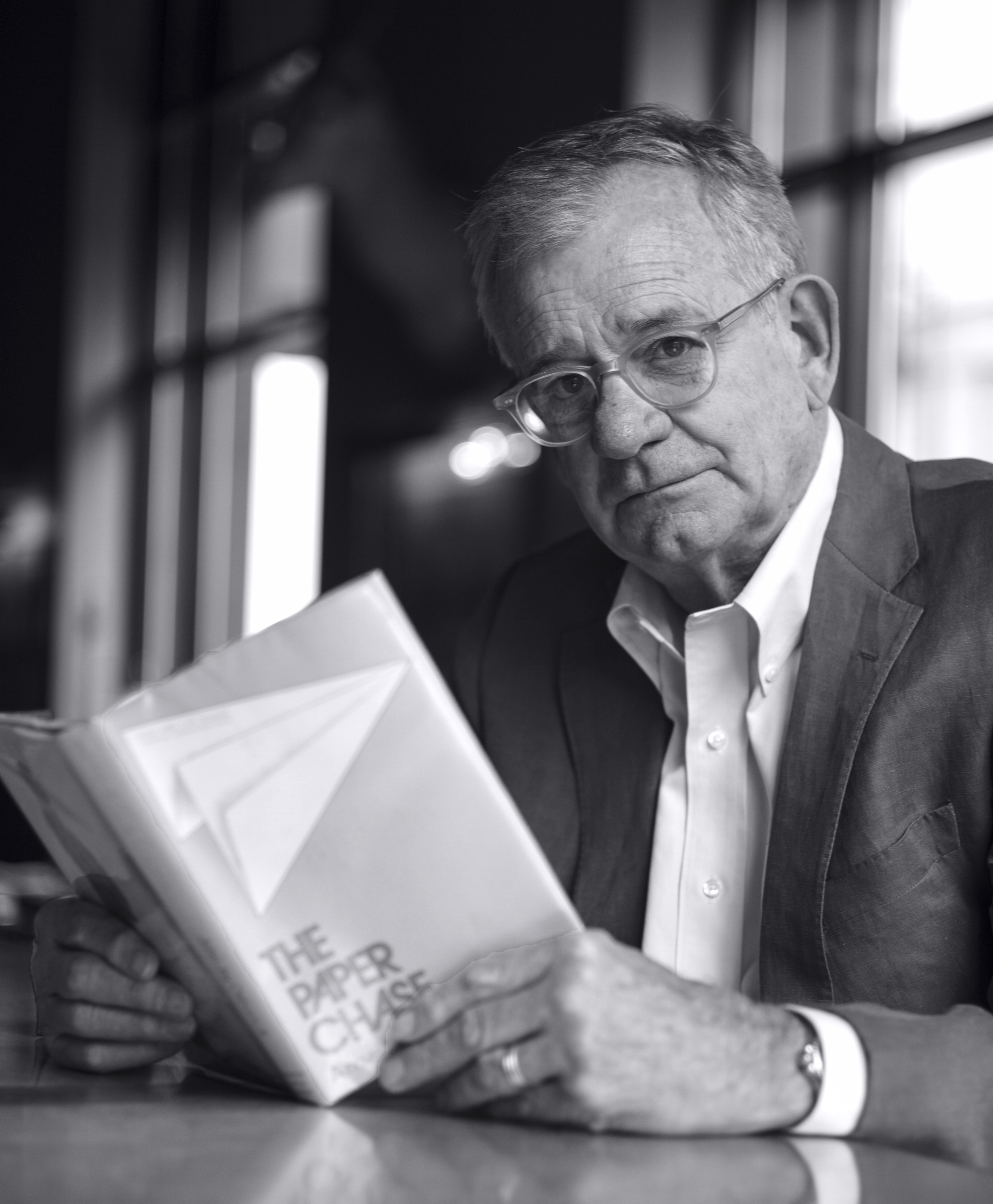 John Jay Osborn in 2016 by Christopher Michel